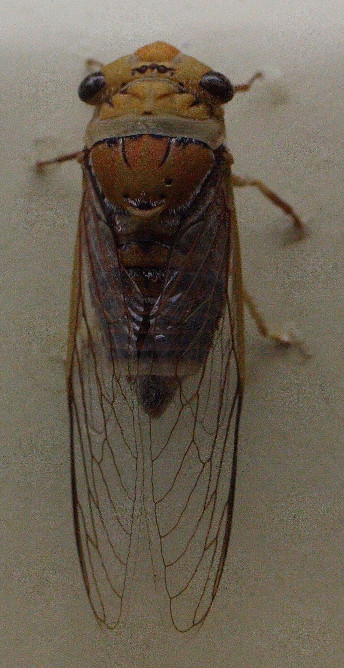 Specimen in the Australian Museum cicada display.